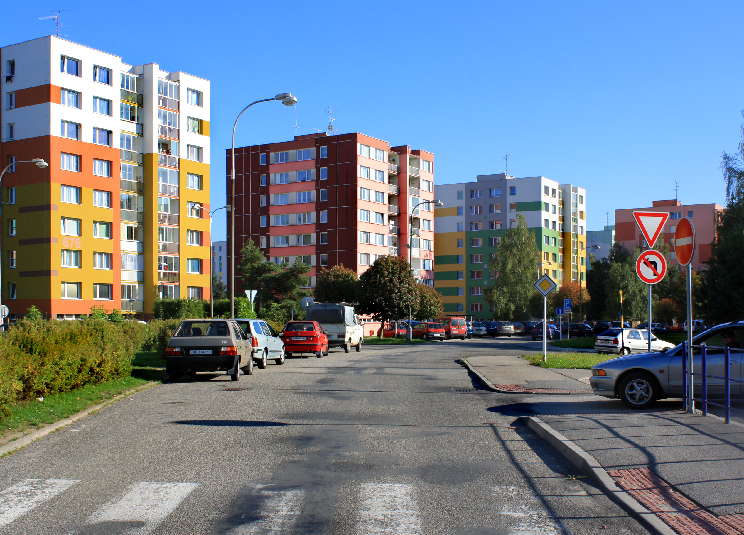 Vajgar housing estate in Jindřichův Hradec, Czech Republic